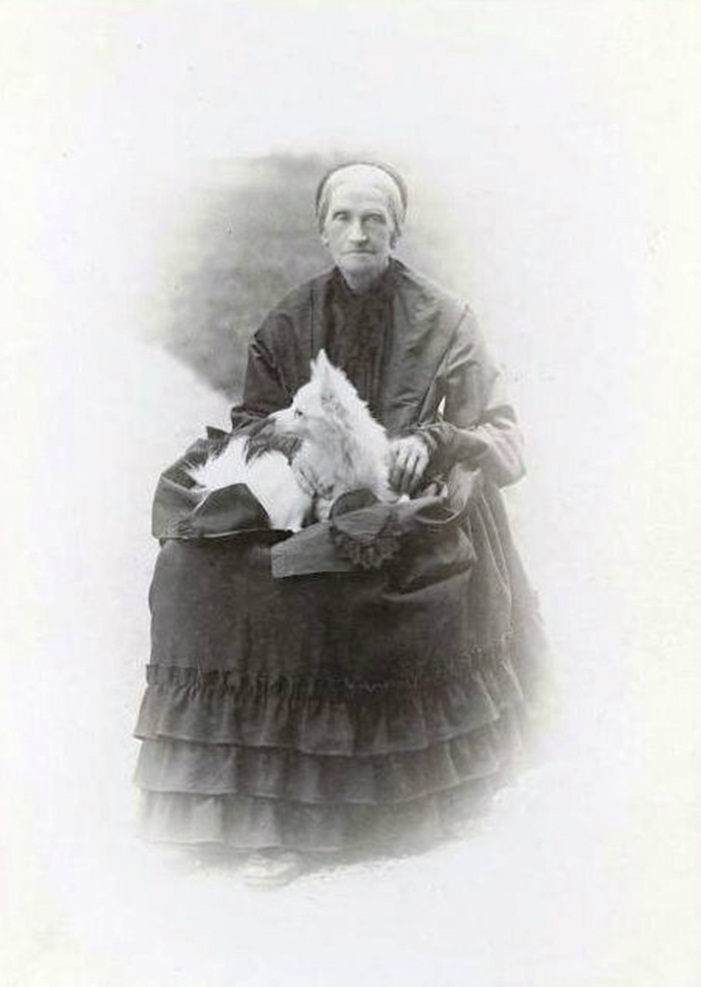 Portrait of Ludovika of Bavaria (1808-1892) aka Ludovika Wilhelmine von Bayern, mother of Empress Elisabeth of Austria